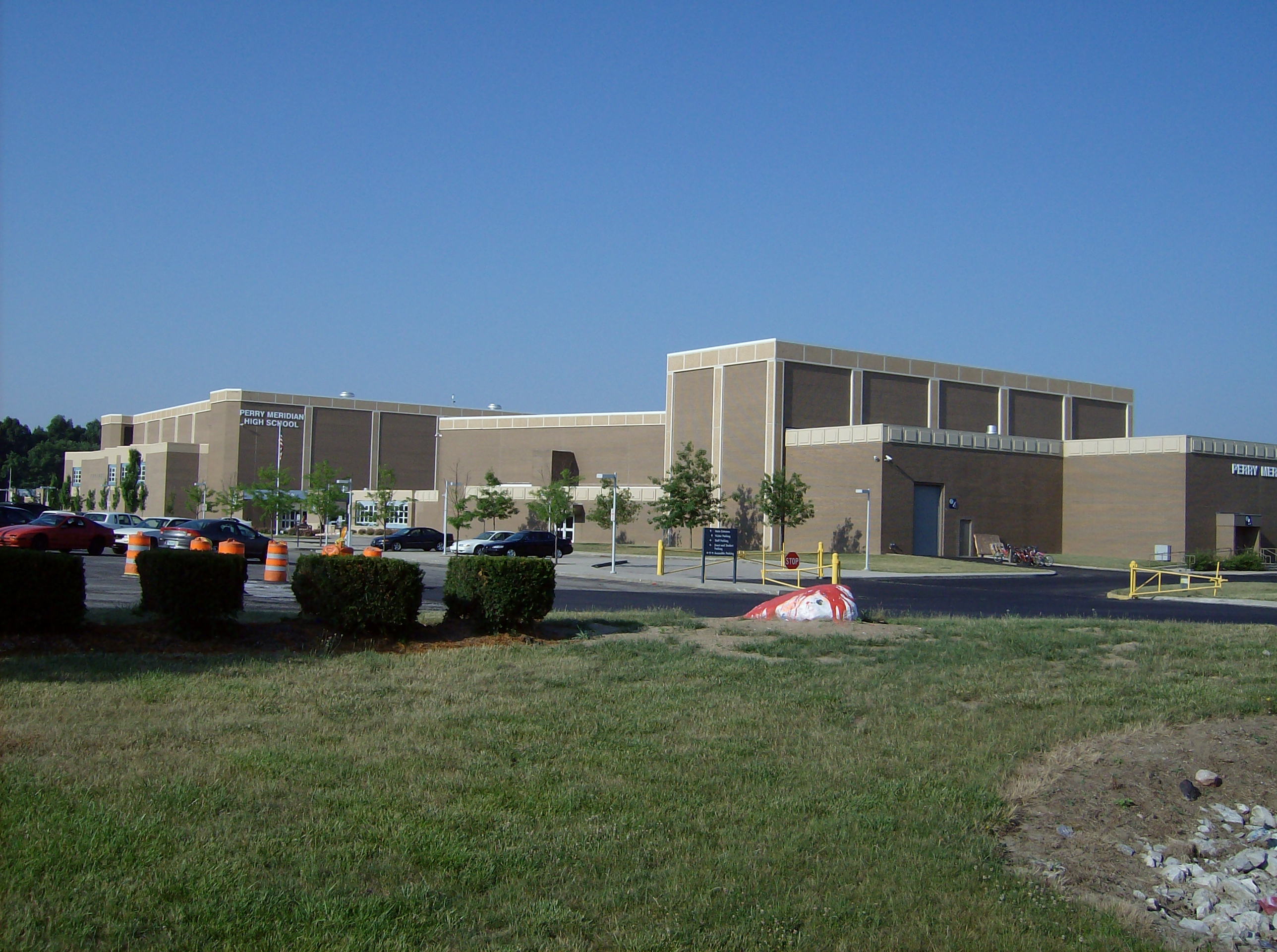 View of the entrance to Perry Meridian High School in Indianapolis, Indiana, United States. School address is 401 Meridian-School Road, along which the picture was taken.